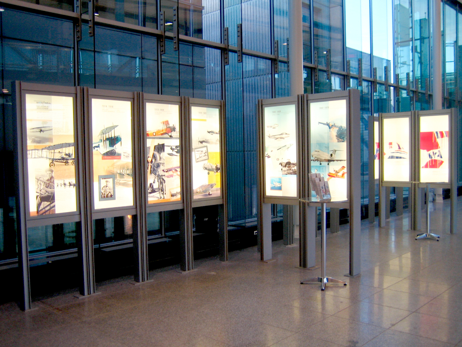 Art Exhibition about the 100th anniversary of aviation in Canada inside the new U.S. Departures sector at Montréal-Pierre Elliott Trudeau International Airport (YUL) in Septembre 2009.